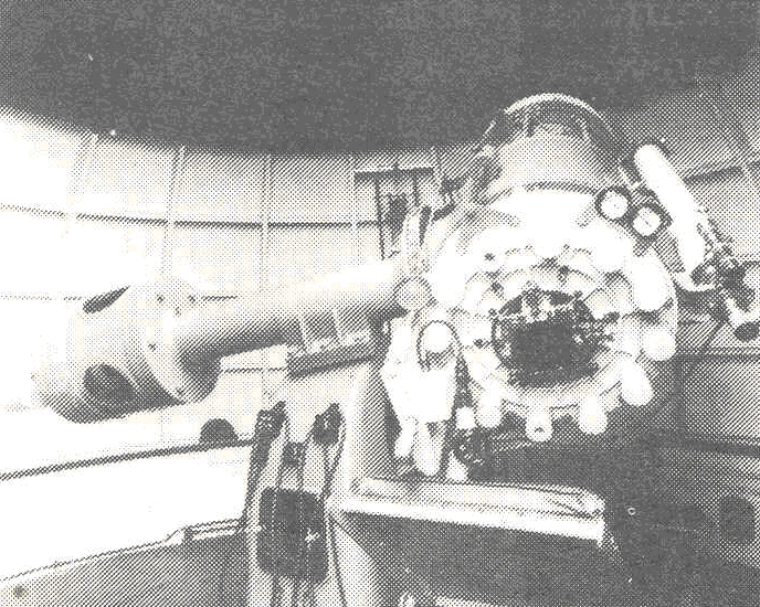 Mills Observatory - The 19-inch (48cm) pilot model telescope